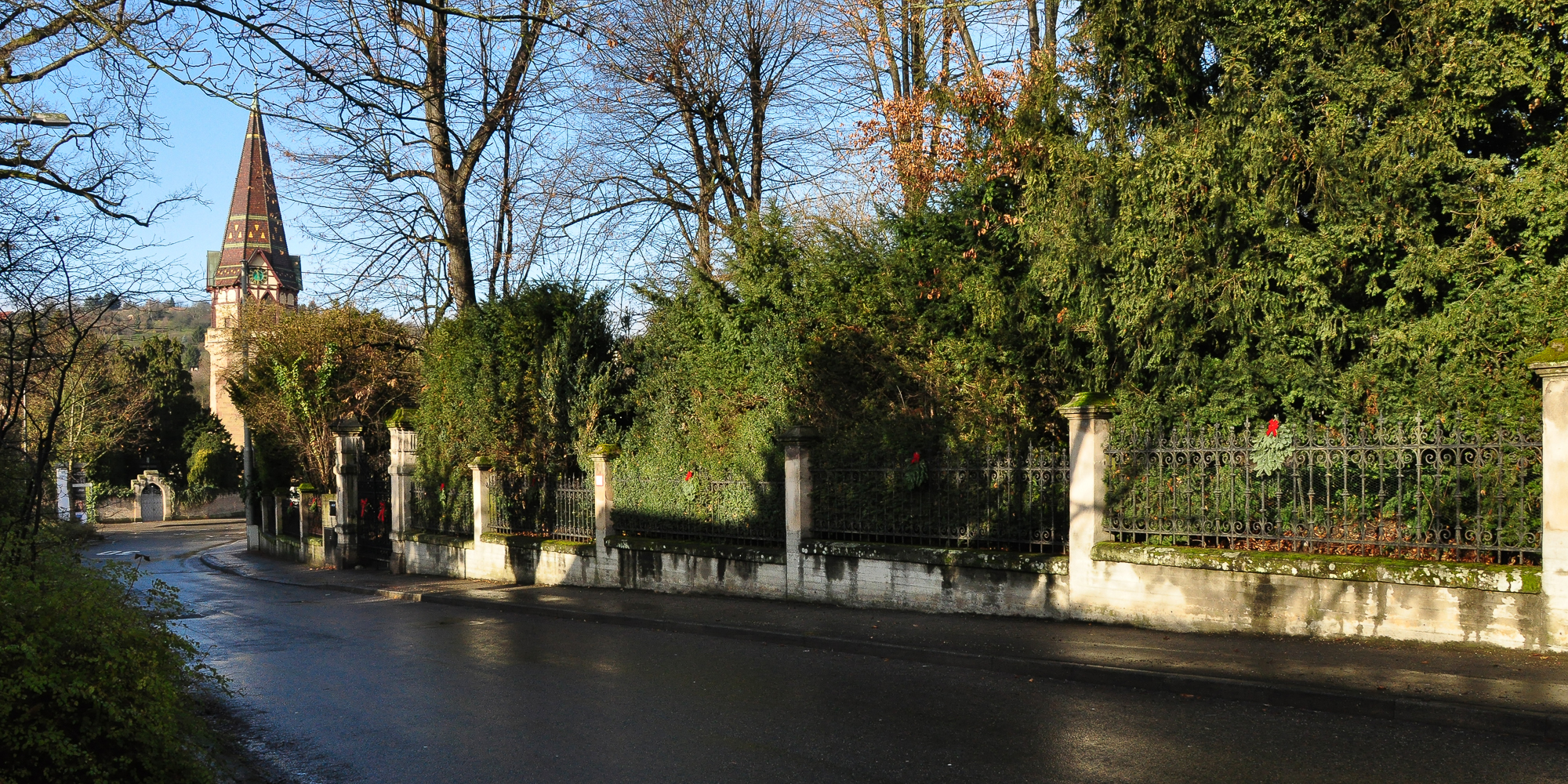 enclosure of the park and summer house of the former villa Benger (1889-1893)